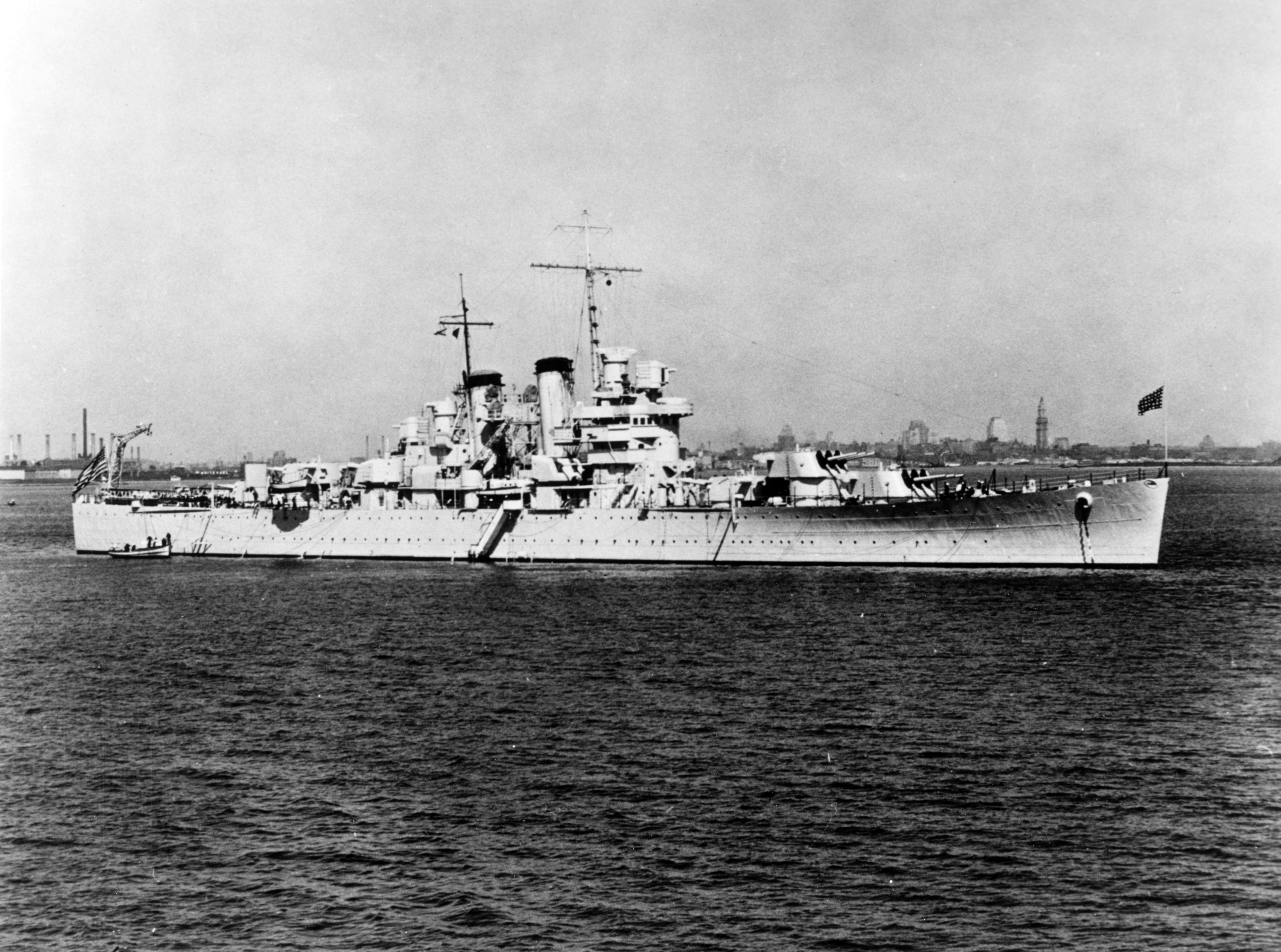 The U.S. Navy light cruiser USS Helena (CL-50) anchored in President Roads, Boston, Massachusetts (USA), 15 June 1940.